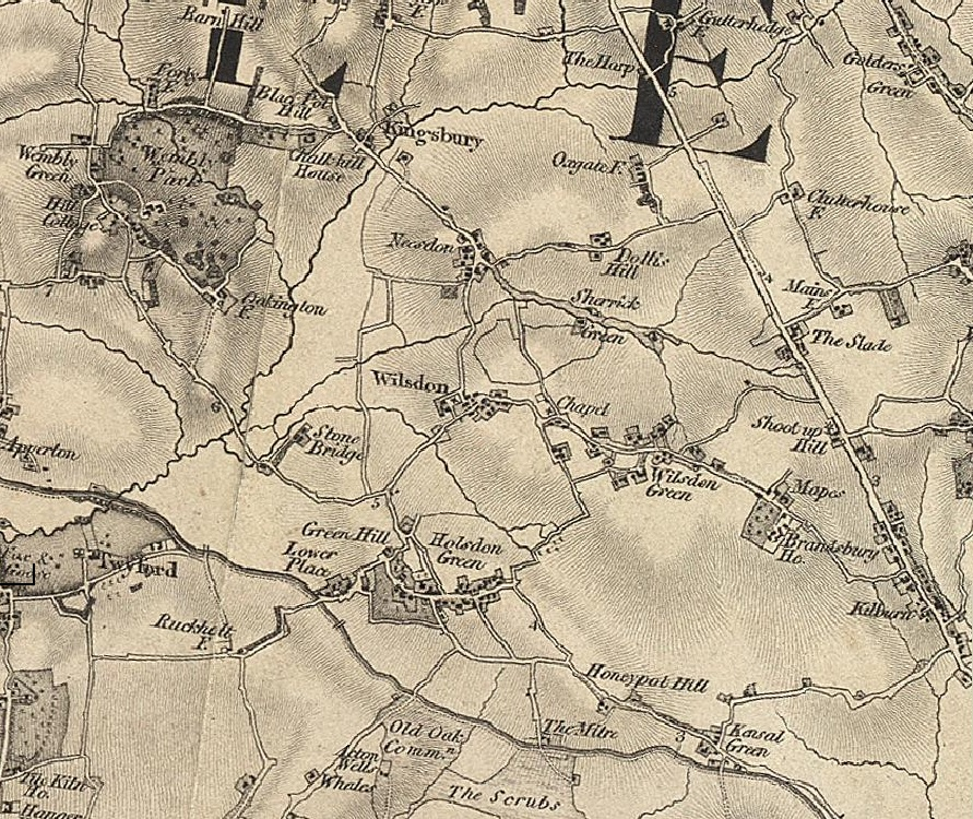 Historical Map of London Borough of Brent